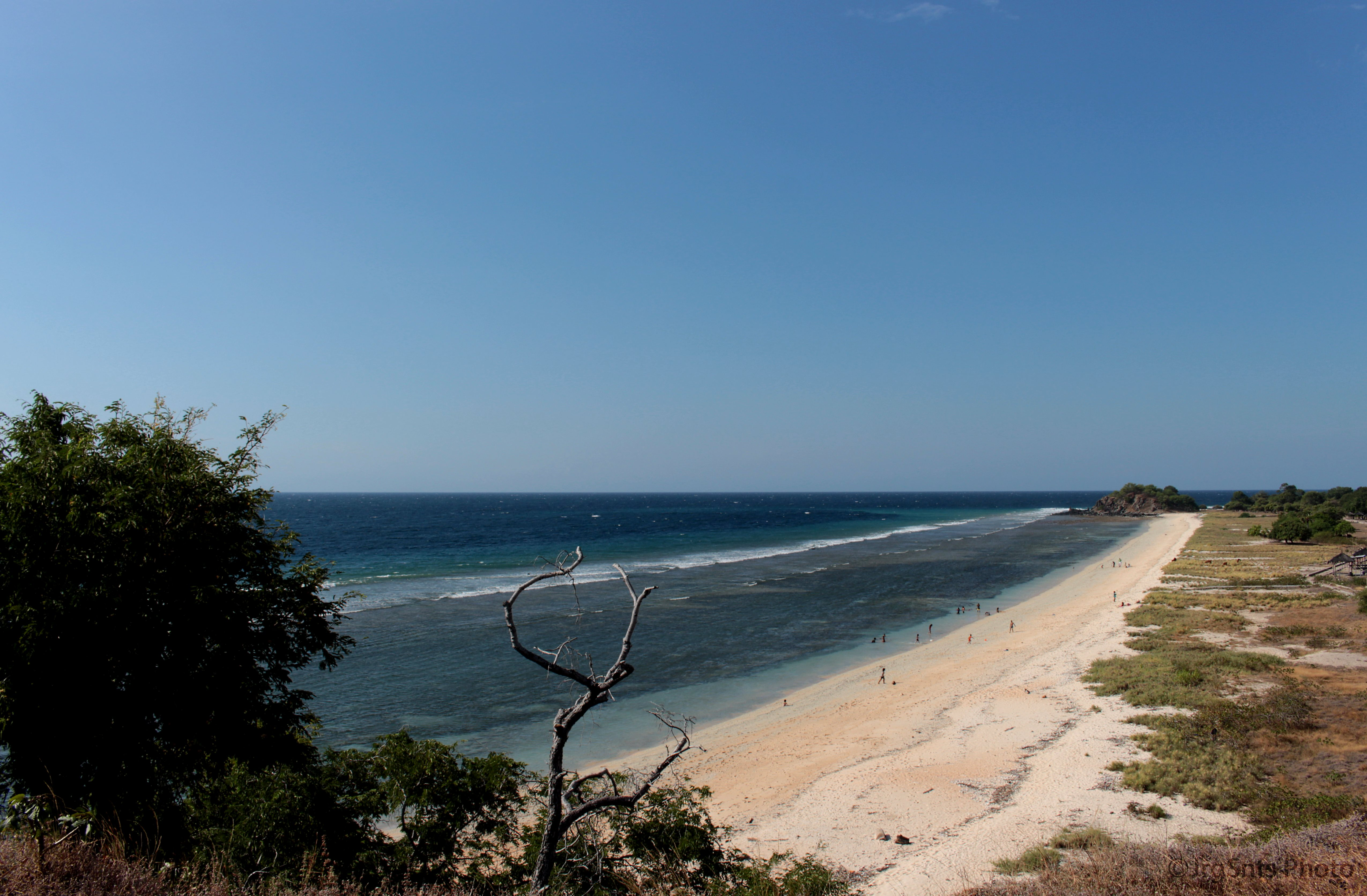 One Dollar Beach. Photo published in "Timor - a ilha feiticeira".